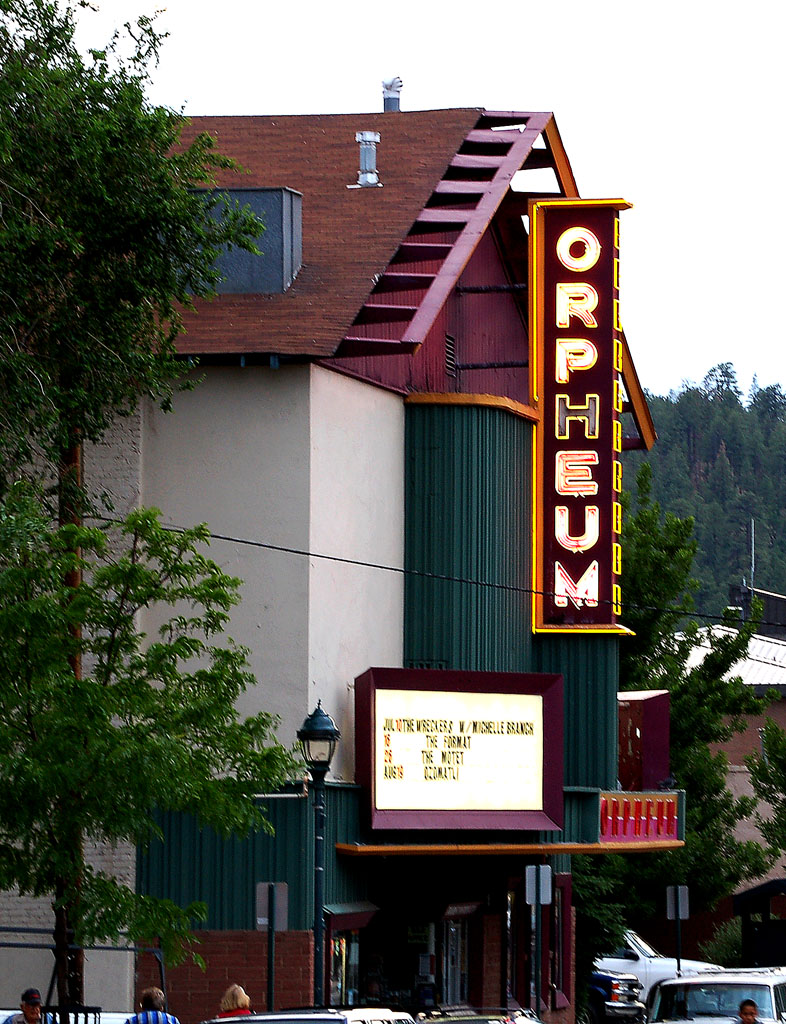 The Orpheum Theater — historic cinema in downtown Flagstaff, Arizona. Present day live theater and music venue. Credits Photo taken June 30, en:2006, by Derek Cashman. Category:Images of Arizona